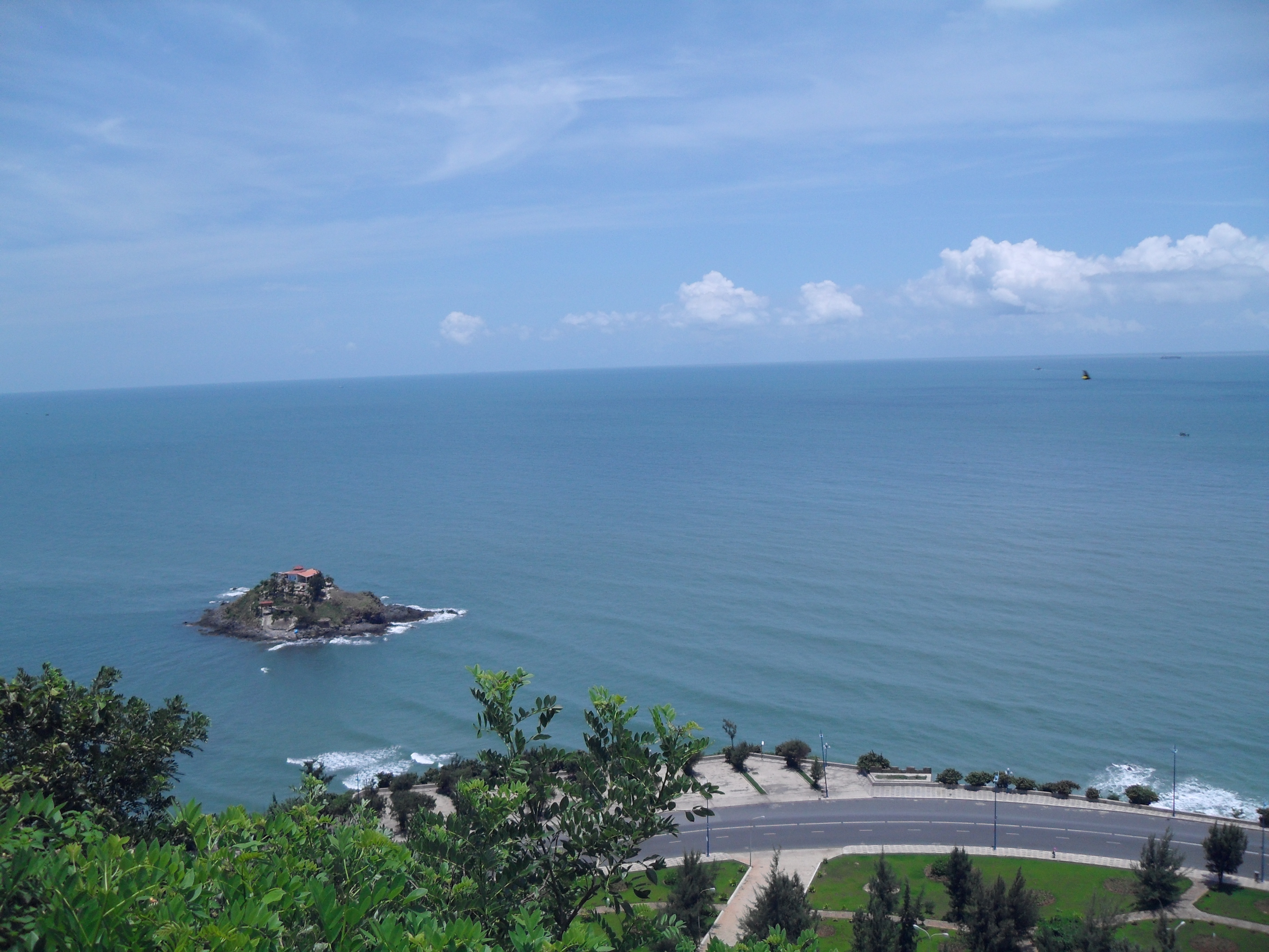 View over the island of Hon Ba pagoda from the giant statue of Jesus in Vung Tau, Vietnam